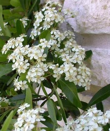 Scarlet Firethorn (Pyracantha coccinea)